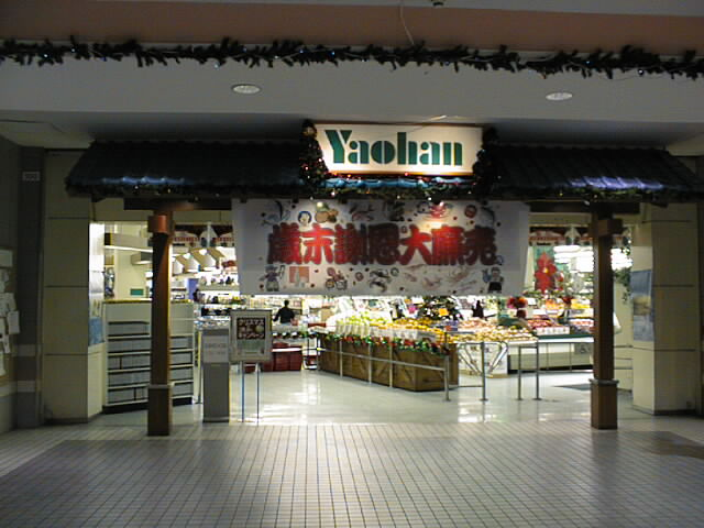 YAOHAN Little Tokyo, Alameda St., Los Angeles, CA 90013 U.S.A.